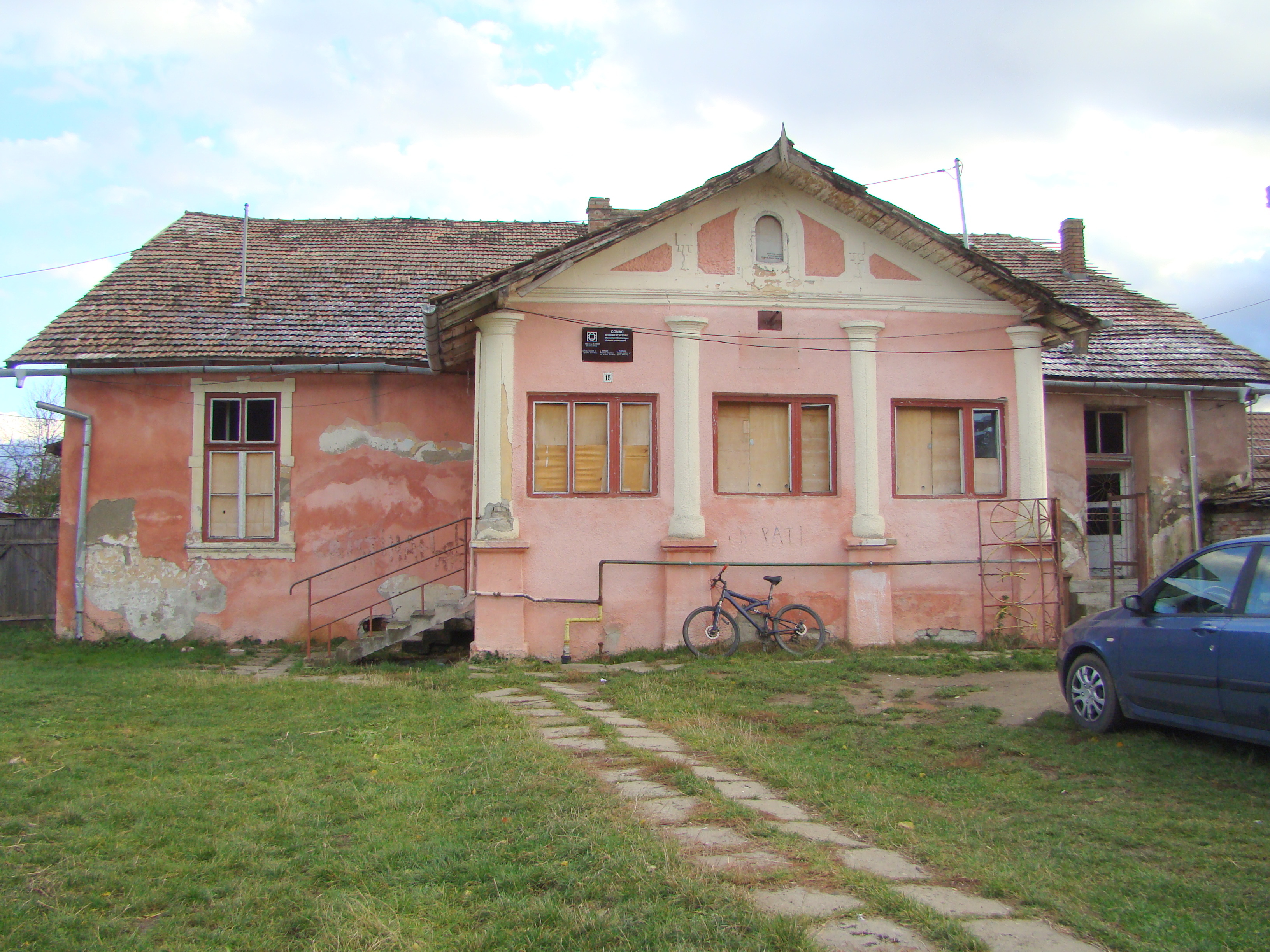 Szilvássy manor in Târnăveni, Mureş county, Romania